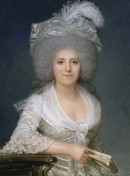 Born Henriette Genet (1752 - 1822), French educator and lady-in-waiting to Queen Marie Antoinette